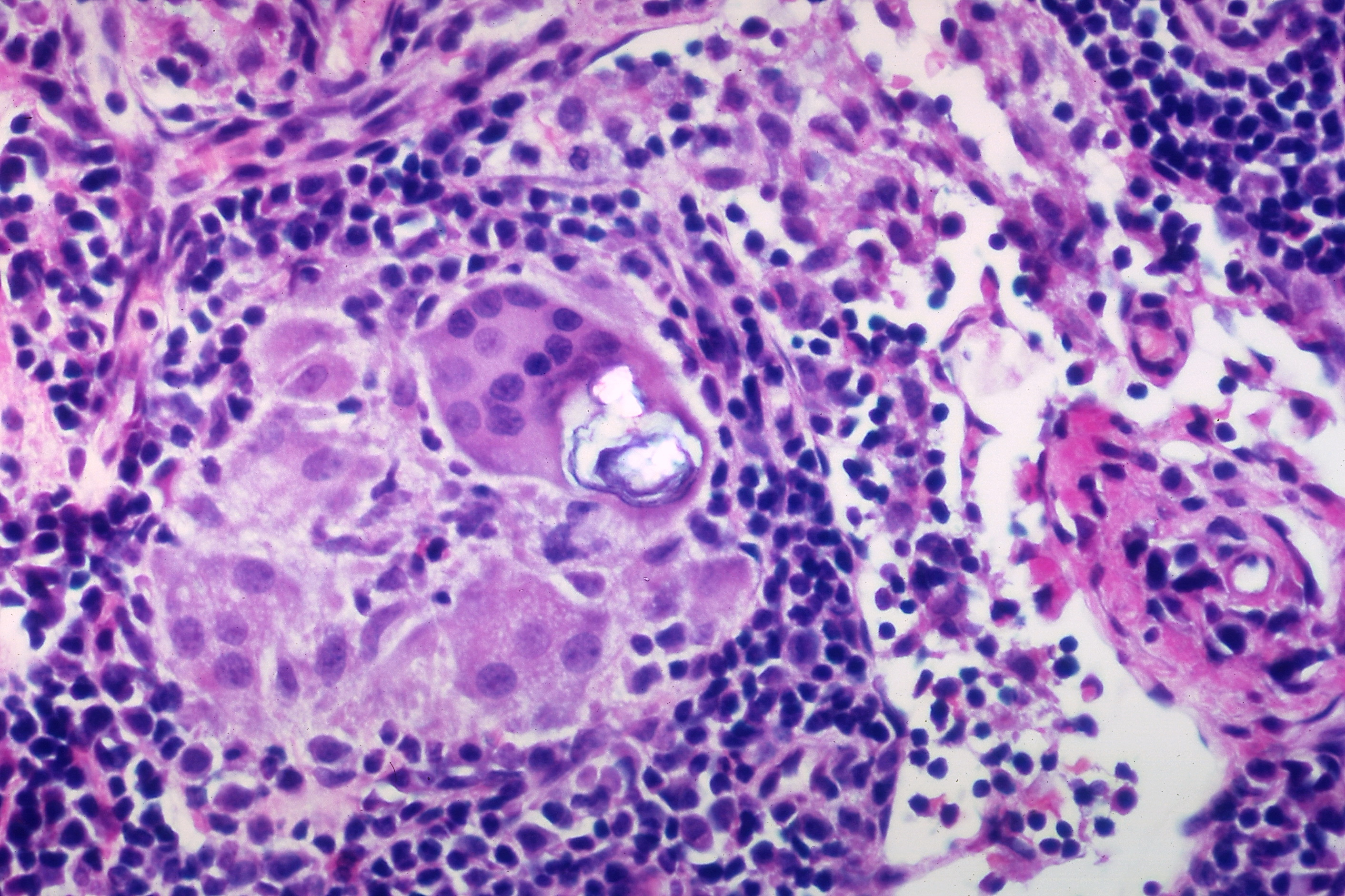 Sarcoidosis - Crystalline inclusion with developing Schaumann body, polarized The crystalline inclusions that may be found within the giant cells in sarcoidosis and other granulomatous disorders consist mainly of calcium oxalate and well as some calcium carbonate. The concentric rings of calcification in association with the crystals represent a Schaumann body. In many cases the crystals appear to serve as a nidus around which Schaumann bodies are formed. H&E stain.